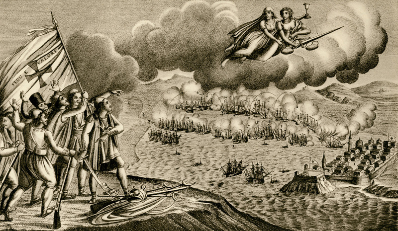 Battaglia Navale tra’ le flotte combinate Inglesi, Francese e Russa contro la flotta Turco-Egizia al porto di Navarino - Puaux René - 1932